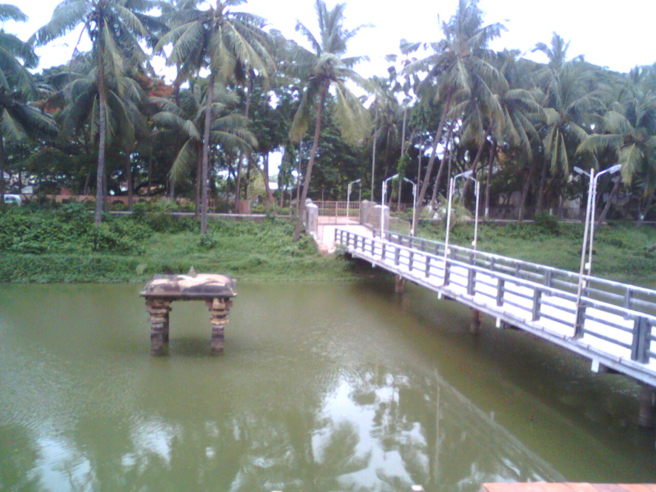 Pond near the temple at Draksharamam in East Godavari district, Andhra Pradesh